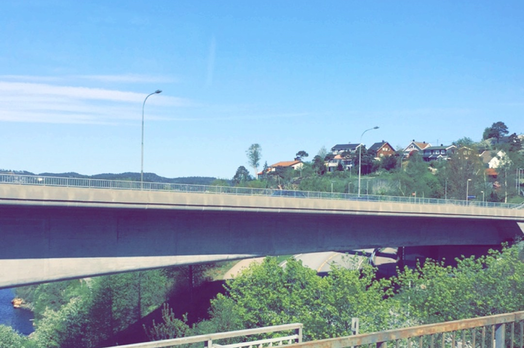 Søm, Kristiansand